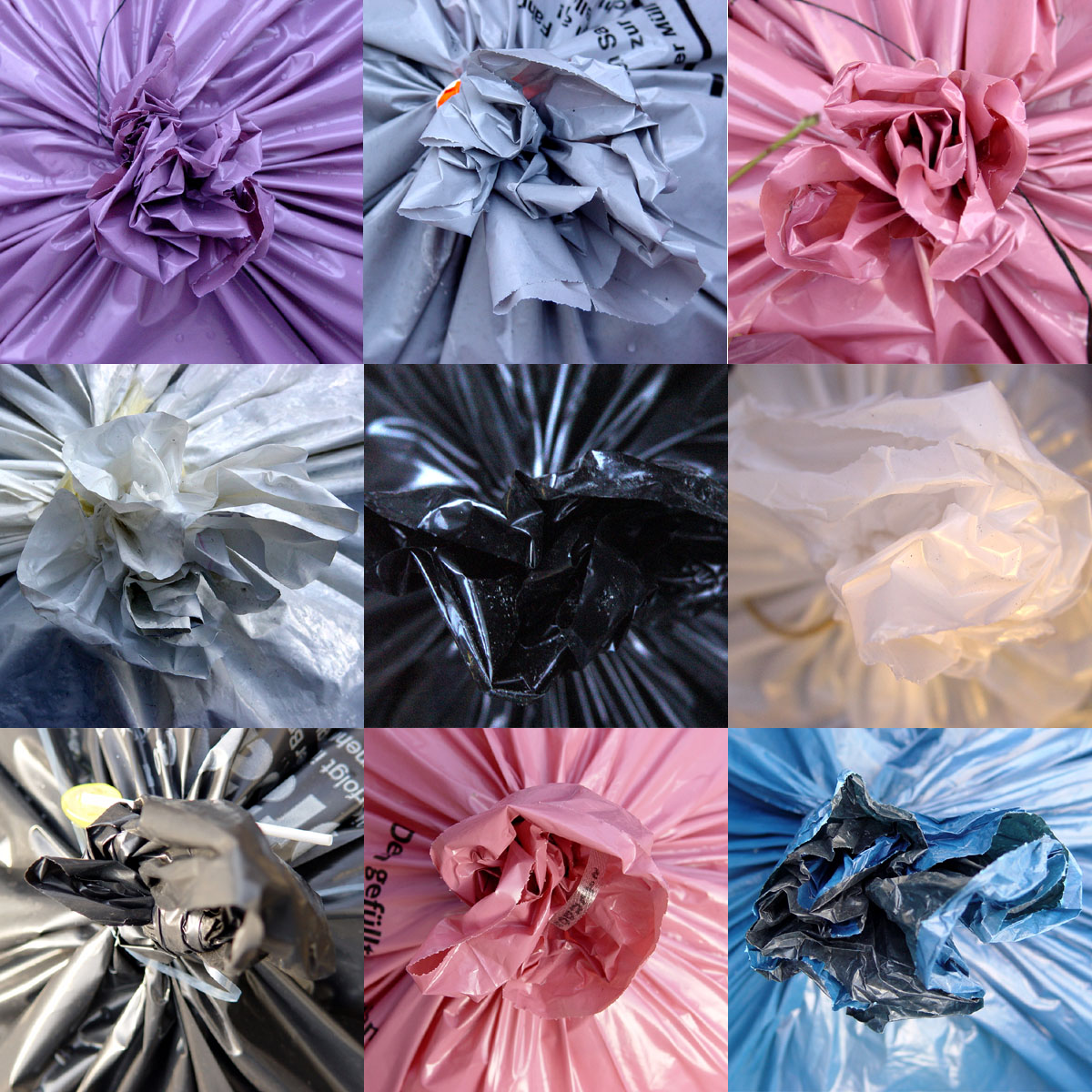 Montage of the tops ("flowers") of plastic garbage bags. Here is the photographer's comment: The strike against longer working hours continues, also in Hamburg... Nobody seems to be happy with trashy streets but material boy already started to love the plastic flowers growing all around us ;) A good side-effect might be reconsideration of the habit of consumption - being faced with the amount of trash we have been producing (one week now). p.s. Read more about this 'beautiful strike' at